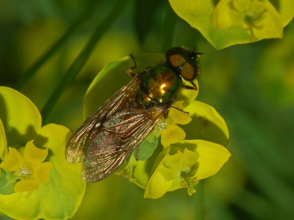 C. formosa - male sitting on cyathia of a Euphorbia